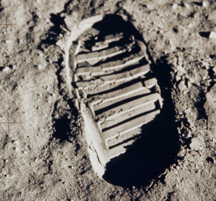 One of the first steps taken on the Moon, this is an image of Buzz Aldrin's bootprint from the Apollo 11 mission. Neil Armstrong and Buzz Aldrin walked on the Moon on July 20, 1969.